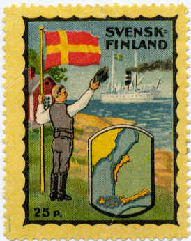 Poster stamp issued by the Swedish People`s party in 1922